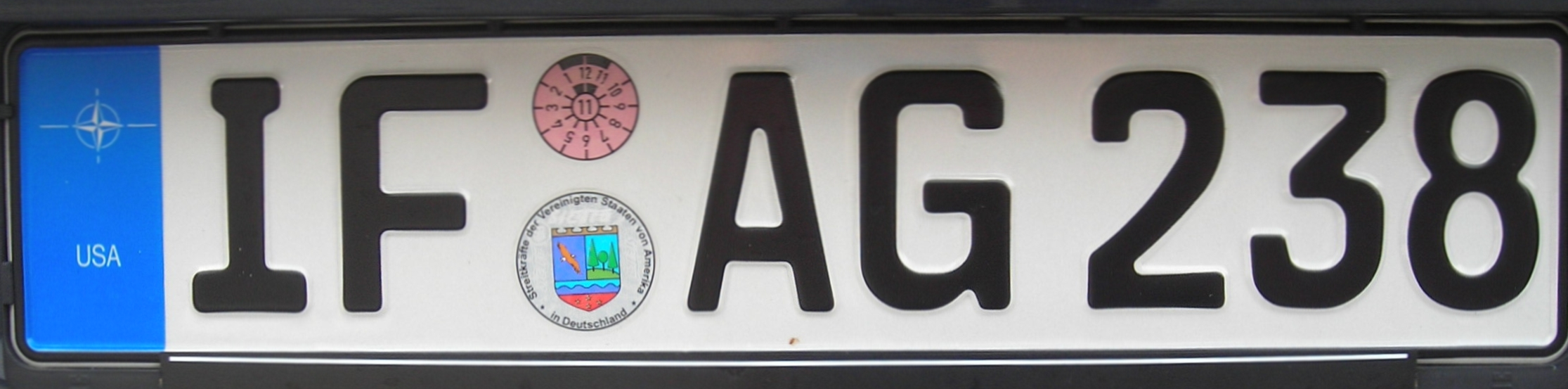 License plate "IF - AG 238" (U.S. Armed Forces in Germany).